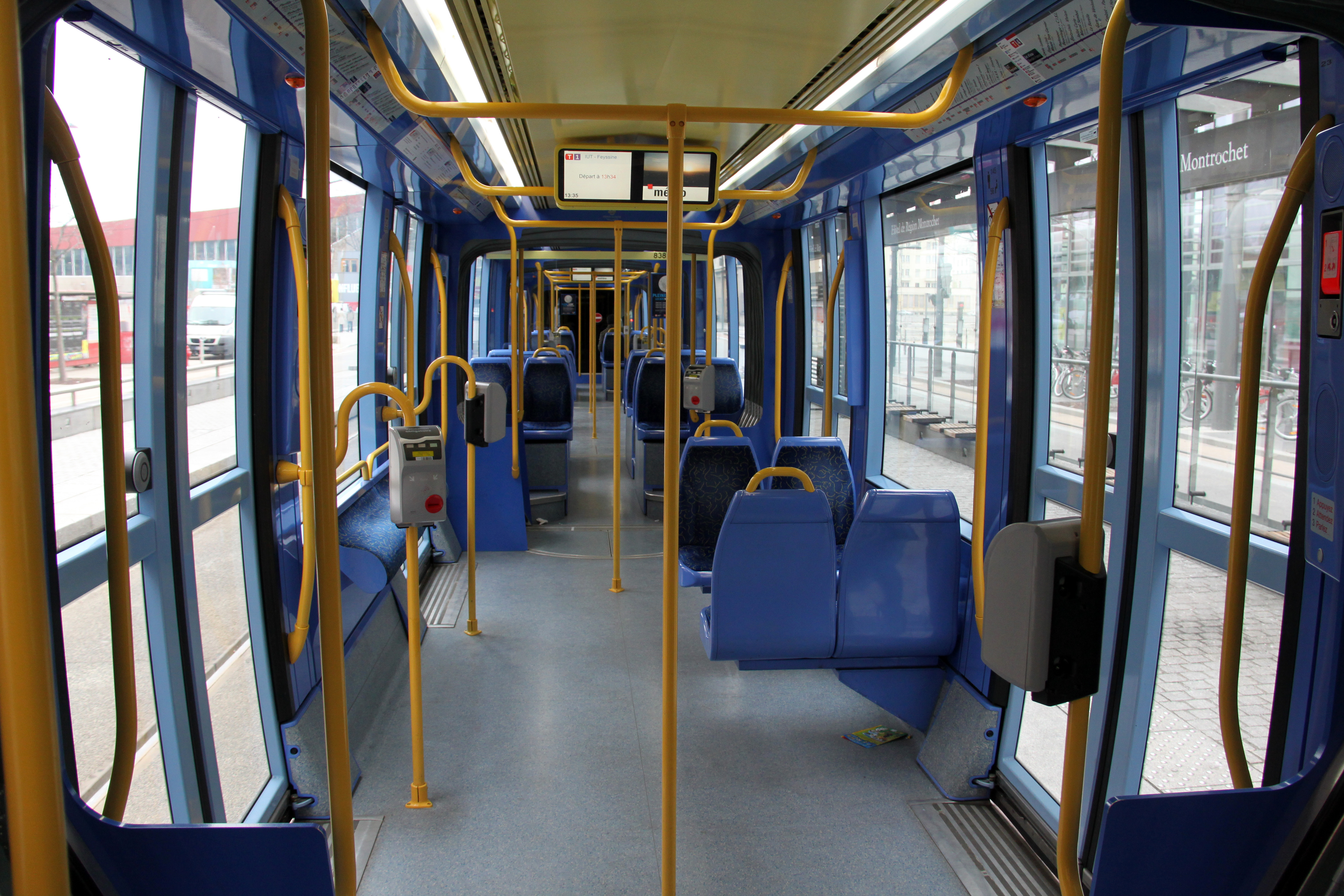 Interior of the Citadis 302 stock of Lyon.